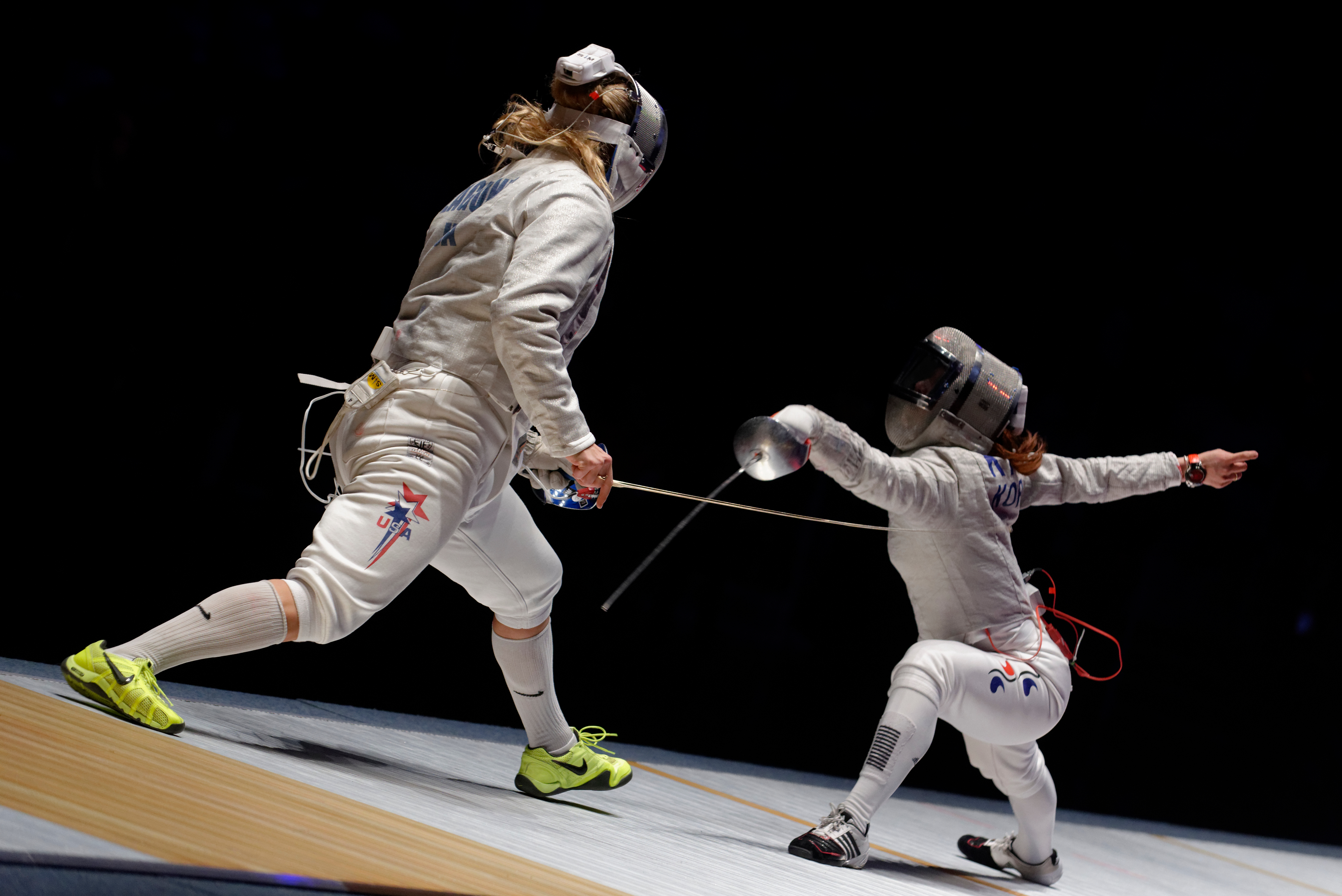 Mariel Zagunis of the United States (left) fences against Korea's Kim Ji-yeon (right) in the semi-finals at the Trophée BNP Paribas-Grand Prix FIE, first stage of the women's sabre World Cup, in Orléans.